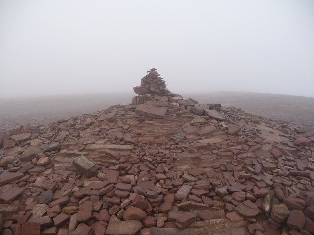 Cairn on Pen y Fan. The summit cairn on Pen y Fan in low morning cloud / hill fog.